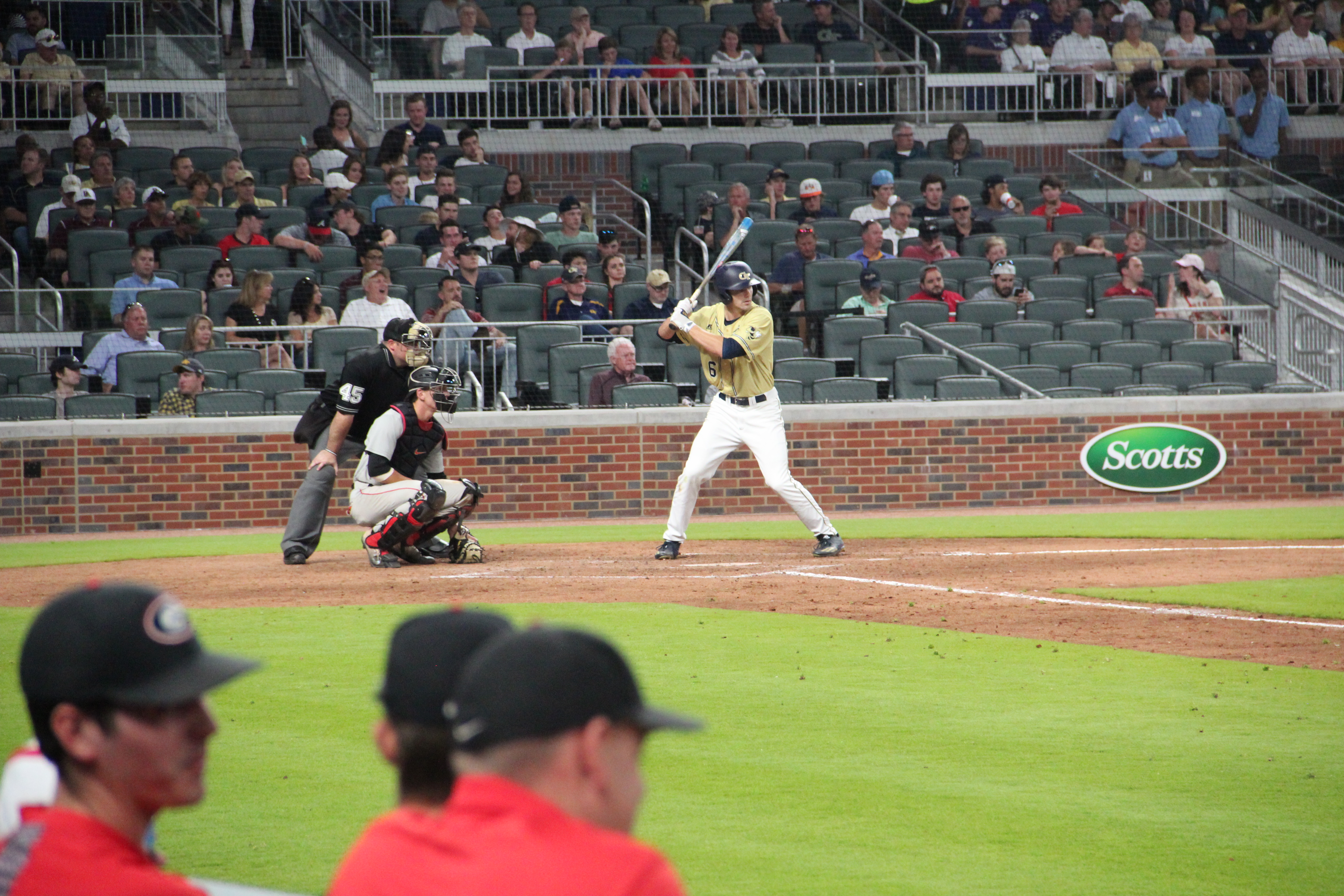 Ryan Peurifoy at bat